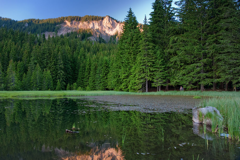 The Grass lake